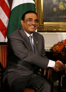 Category:George W. Bush Category:George W. Bush in 2008 Category:Asif Ali Zardari